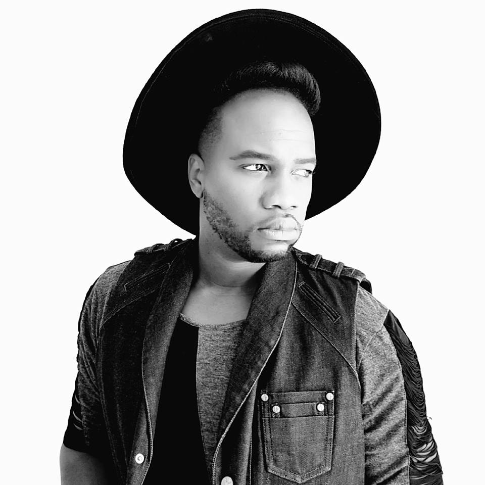 Latonius Cover